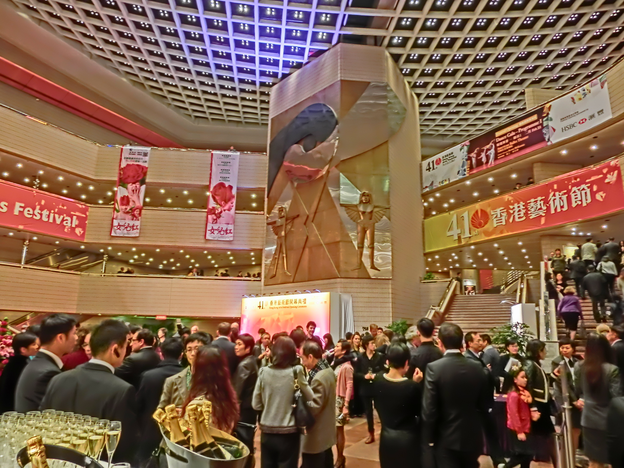 Opening ceremonyCocktail party of 2013 Hong Kong Arts Festival, 第41屆zh:香港藝術節2013年2月21日開幕典禮zh:酒會